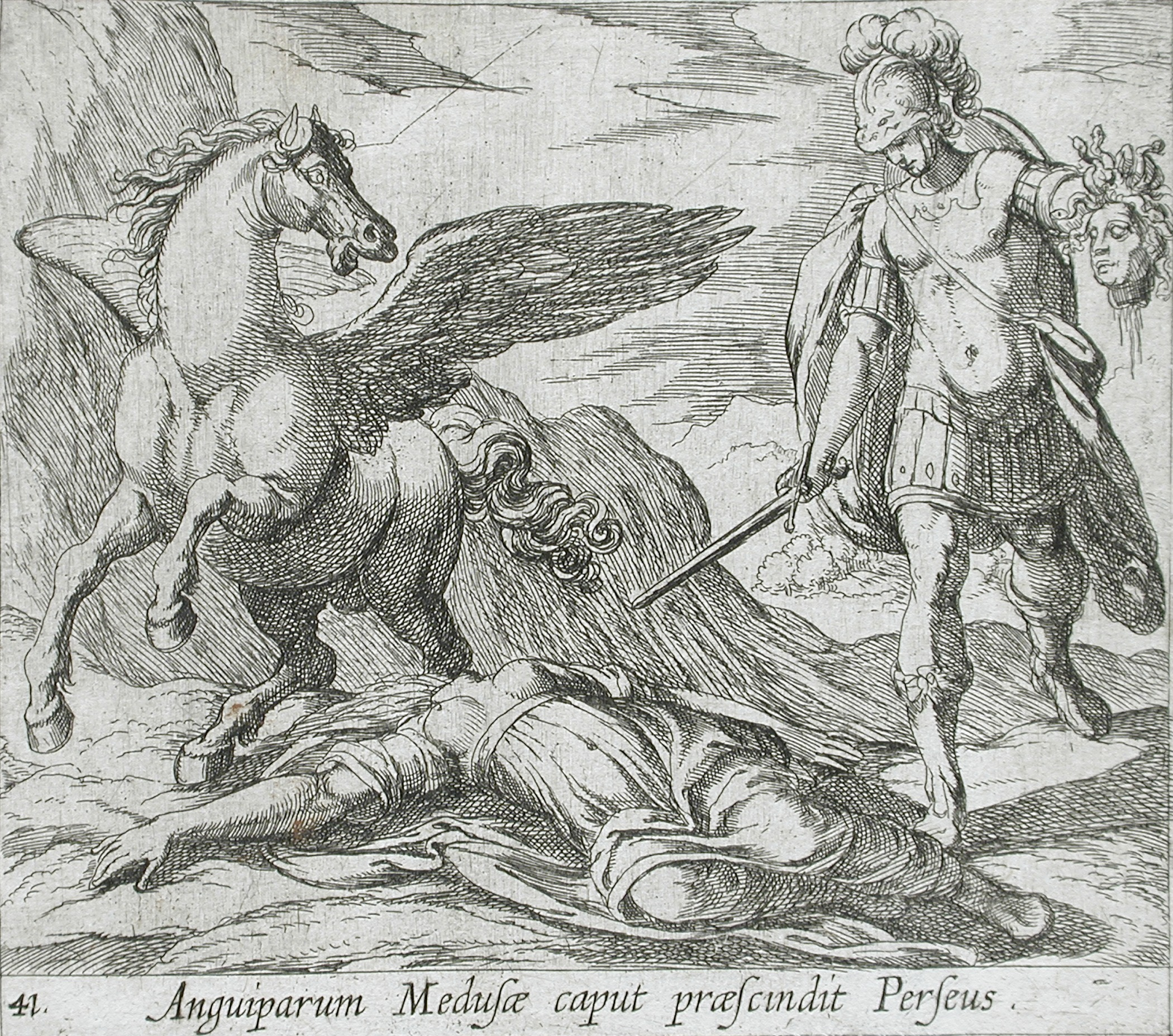 Italy, published 1606 Alternate Title: Anguiparum Medusae caput praescindit Perseus Series: The Metamorphoses of Ovid, pl. 41 Edition: Second edition Prints; etchings Etching Los Angeles County Fund (65.37.125) Prints and Drawings